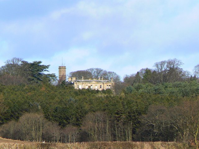 Errol Park The mansion house and adjacent octagonal tower in Errol Park. The house dates from 1875 and was built on the site of an earlier building destroyed by fire. It is now available for weddings, as a film venue etc.